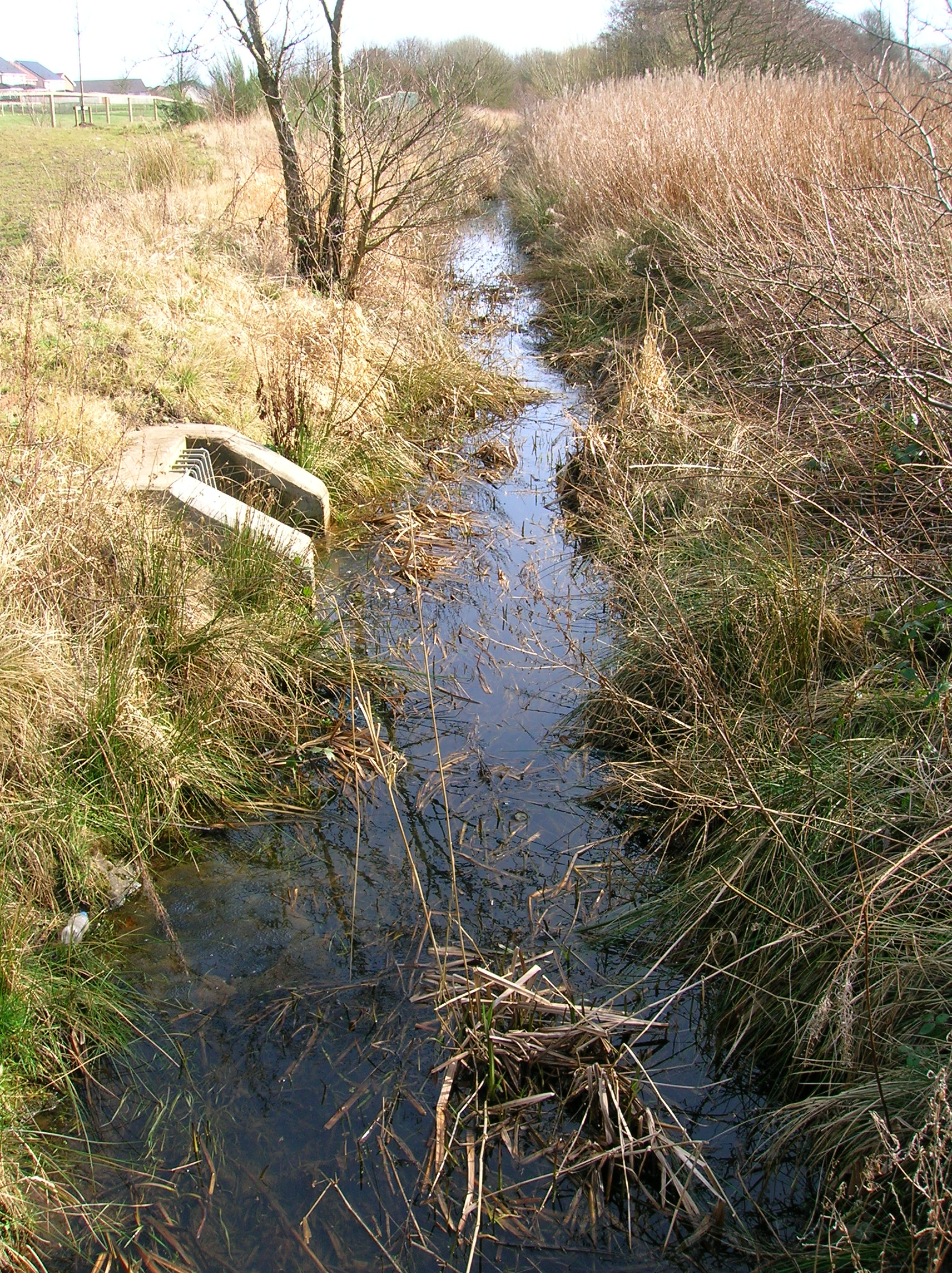 The Red Burn at the Drukken Steps, Irvine, North Ayrshire, Scotland